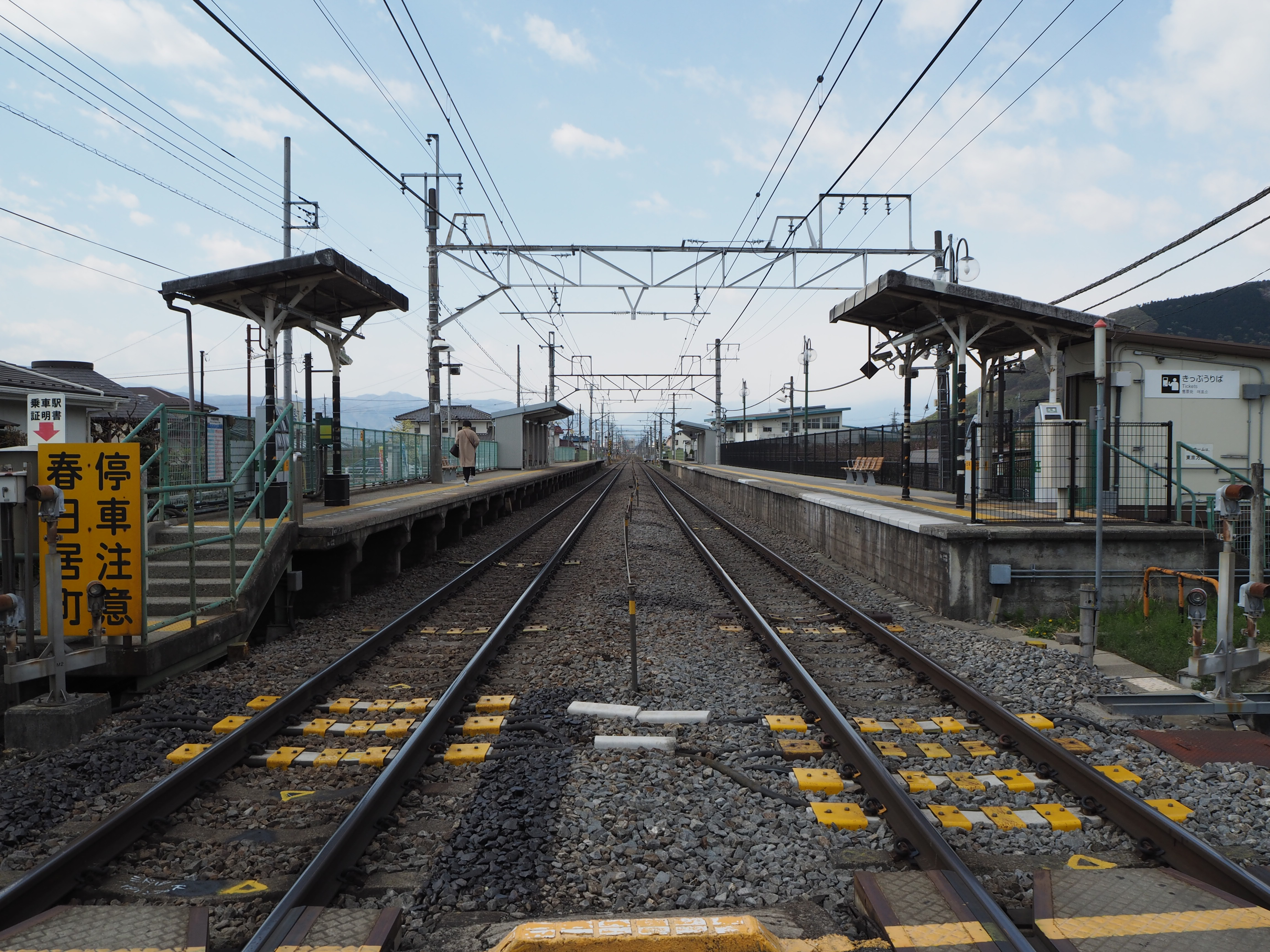 Kasugaichō Station